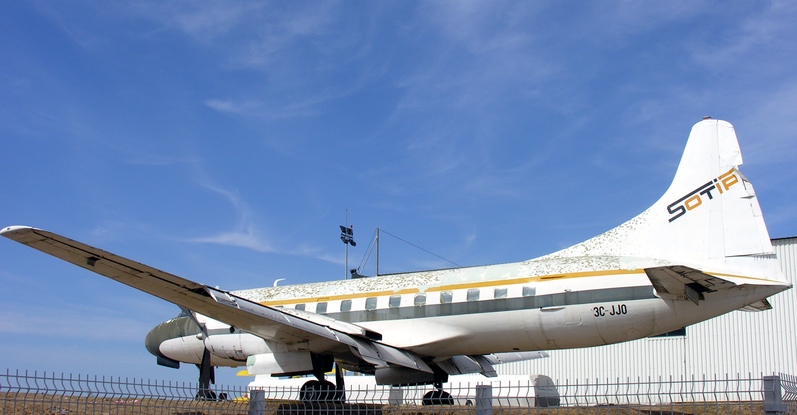 Dead Convair 440 at Evora, Portugal, September 2005